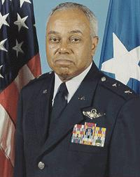 Retired Major General Joseph A. McNeil circa 2000.